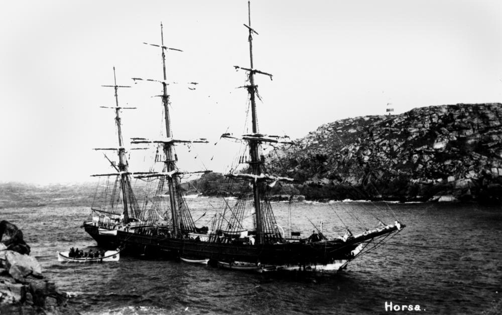 Horsa (ship) The original photographer was James Gibson of Scilly Isles, England.